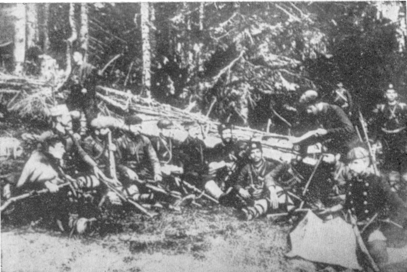 Hristo Karamandzhukov reports the descisions of the congres of Petrova Niva